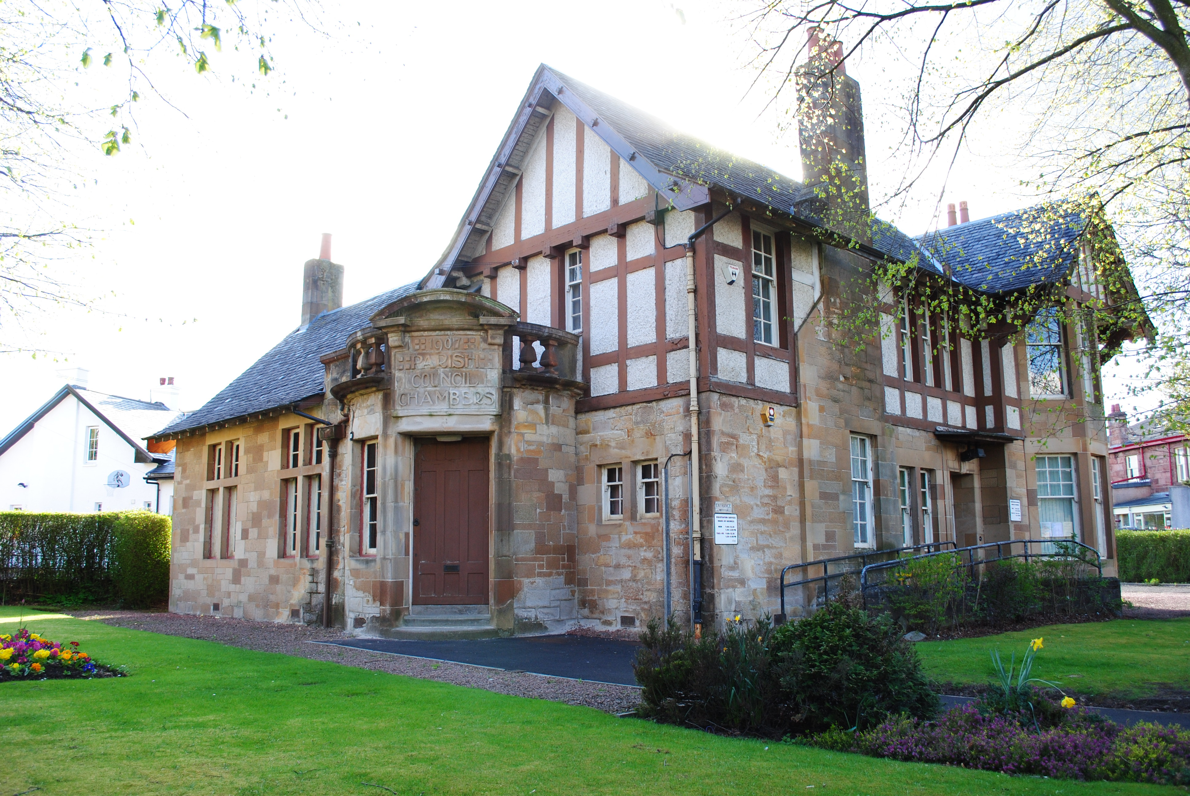 Former New Kilpatrick Parish Chambers, Bearsden, Scotland, built in 1907; now housing Registry Services for East Dunbartonshire Council.Wikiwayman (talk) 19:20, 30 April 2010 (UTC)